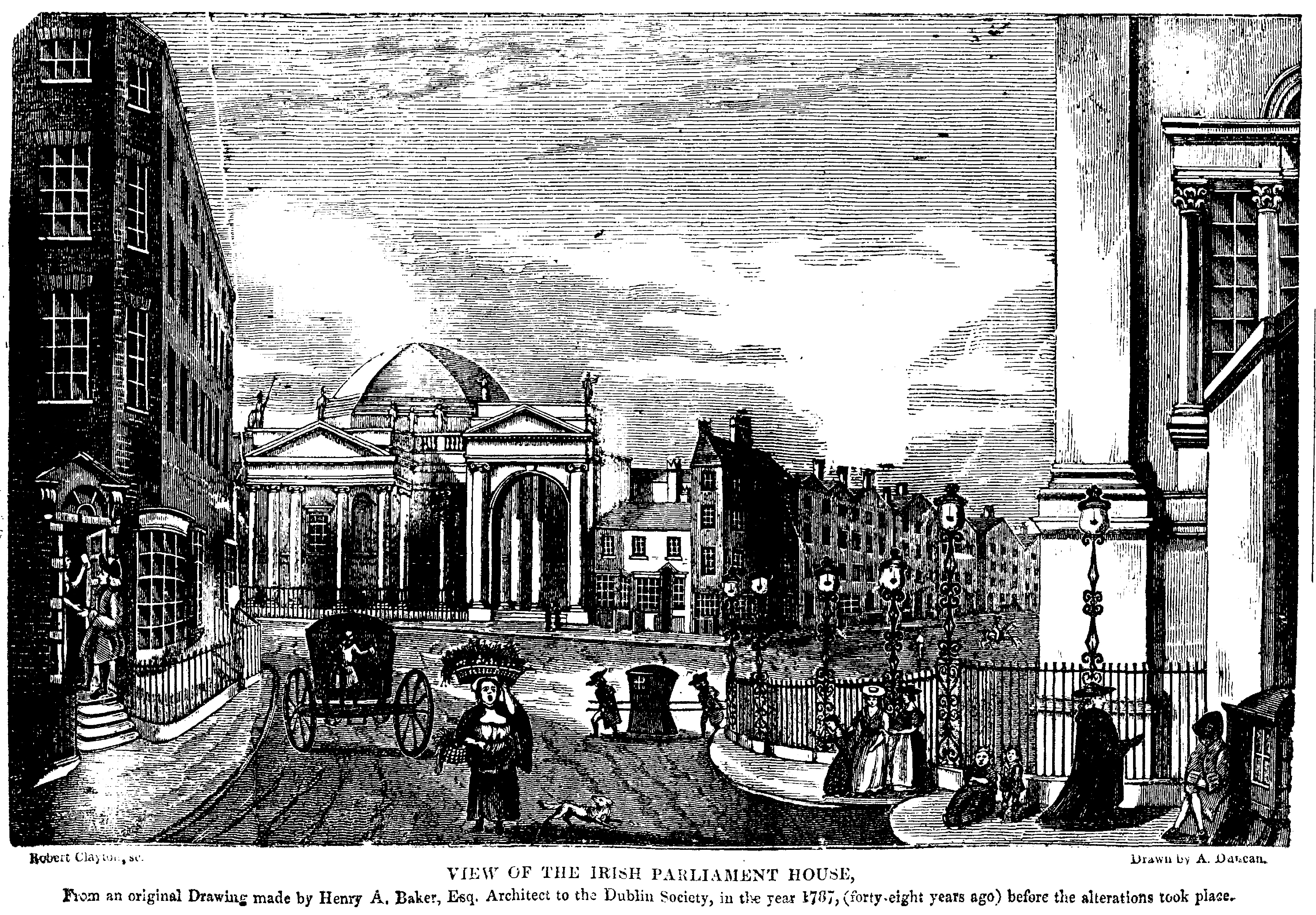 Caption reads "View of the Irish Parliament House, from an original Drawing made by Henry A. Baker, Esq. Architect to the Dublin Society, in the year 1787, (forty-eight years ago) before the alterations took place."